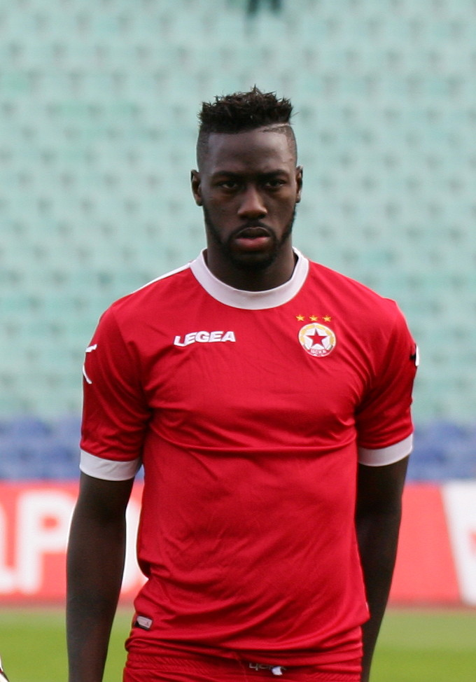 Jackson Mendy-profesional soccer player from Senegal, he played for CSKA Sofia